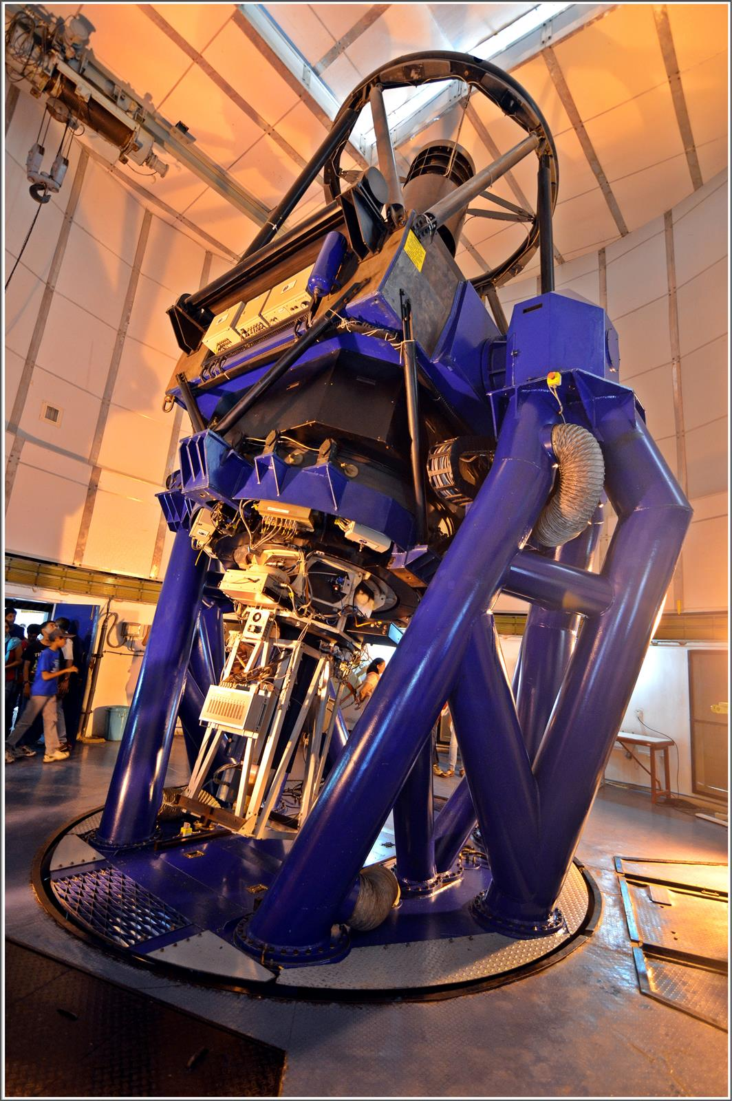 JVP Organized study tour to IUCAA Girawali Observatory (IGO)